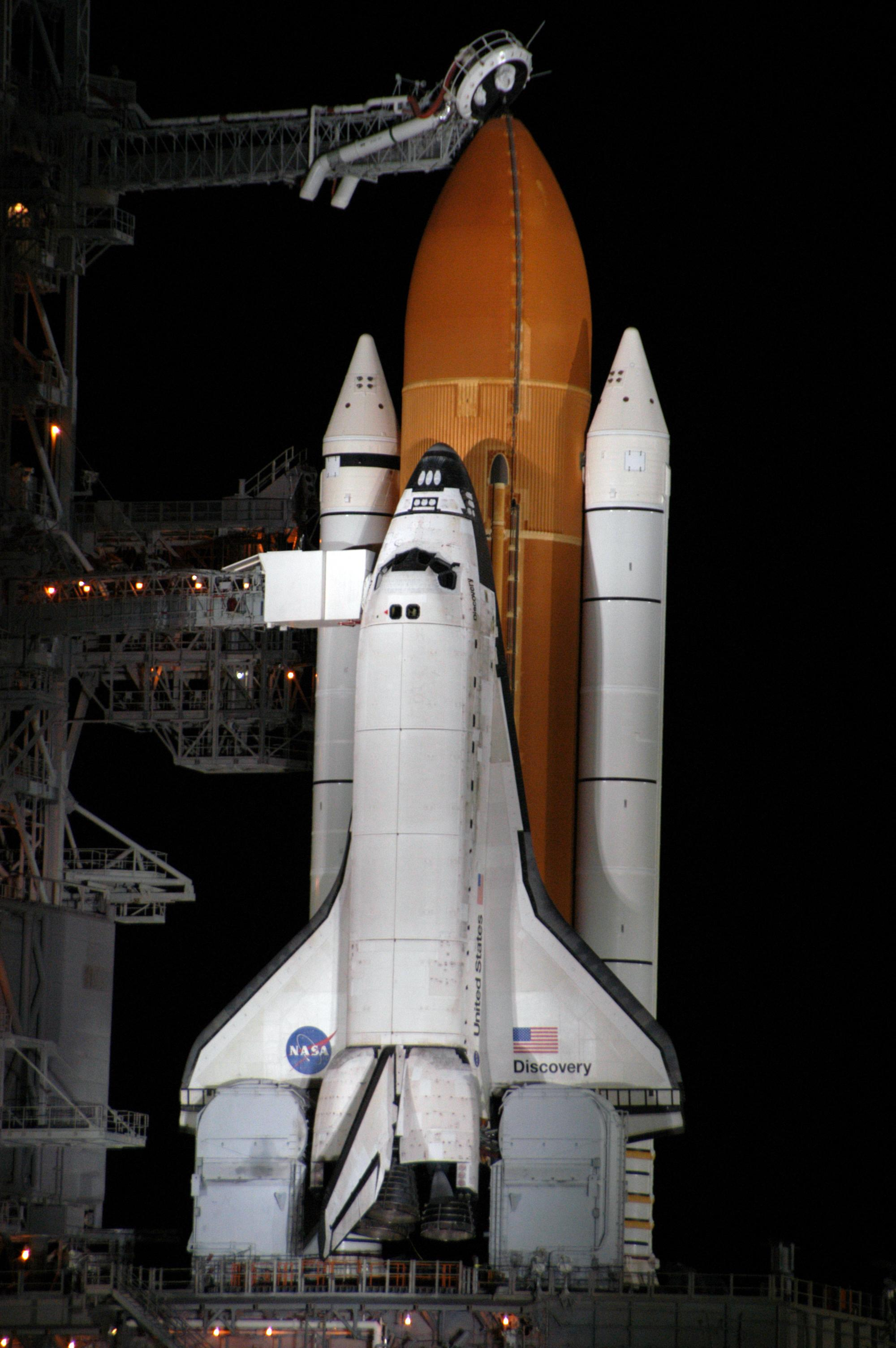 PHOTO NO: KSC-06PD-2670 KENNEDY SPACE CENTER, FLA. -- Space Shuttle Discovery is bathed in light on Launch Pad 39B after rollback of the rotating service structure after midnight. Beneath Discovery's wings are the tail masts, which provide several umbilical connections to the orbiter, including a liquid-oxygen line through one and a liquid-hydrogen line through another. Seen above the golden external tank is the vent hood (known as the "beanie cap") at the end of the gaseous oxygen vent arm, extending from the FSS. Vapors are created as the liquid oxygen in the external tank boil off. The hood vents the gaseous oxygen vapors away from the space shuttle vehicle. Below it, also extending toward Discovery from the FSS, is the orbiter access arm with the White Room at the end. The crew gains access into the orbiter through the White Room. Discovery is scheduled to launch on mission STS-116 at 9:35 p.m. today. On the mission, the crew will deliver truss segment, P5, to the International Space Station and begin the intricate process of reconfiguring and redistributing the power generated by two pairs of U.S. solar arrays. The P5 will be mated to the P4 truss that was delivered and attached during the STS-115 mission in September. Photo credit: NASA/George Shelton.